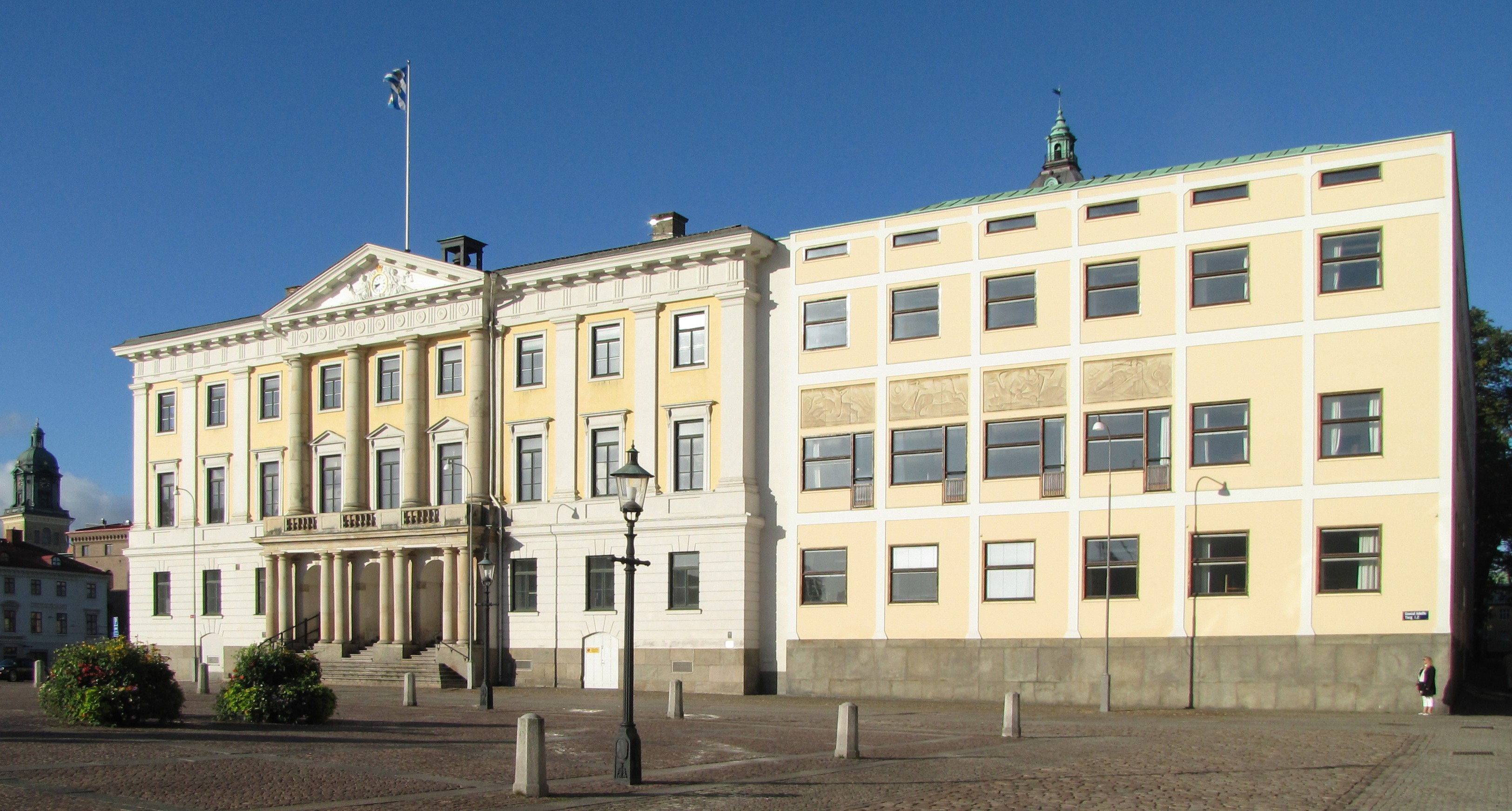 "Rådhuset", a house at Gustav Adolfs torg in Göteborg containing parts of the district court. A late extension is added on the right side. (This image is a cropped version of my File:Radhuset Gbg med tillbyggnad.jpg)